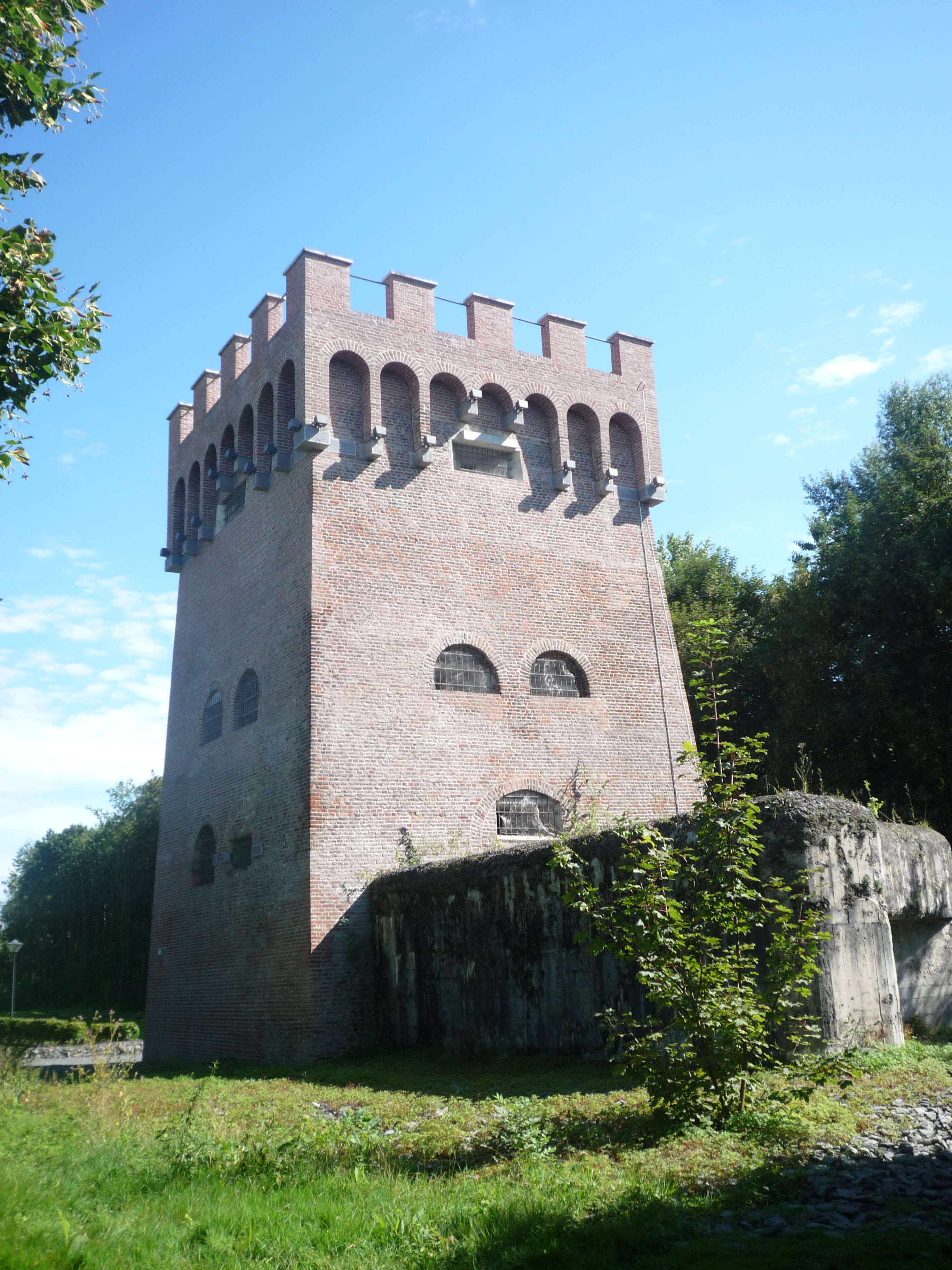 Pit Sarteau n° 1 at Fresnes-sur-Escaut, Nord, Nord-Pas-de-Calais, France